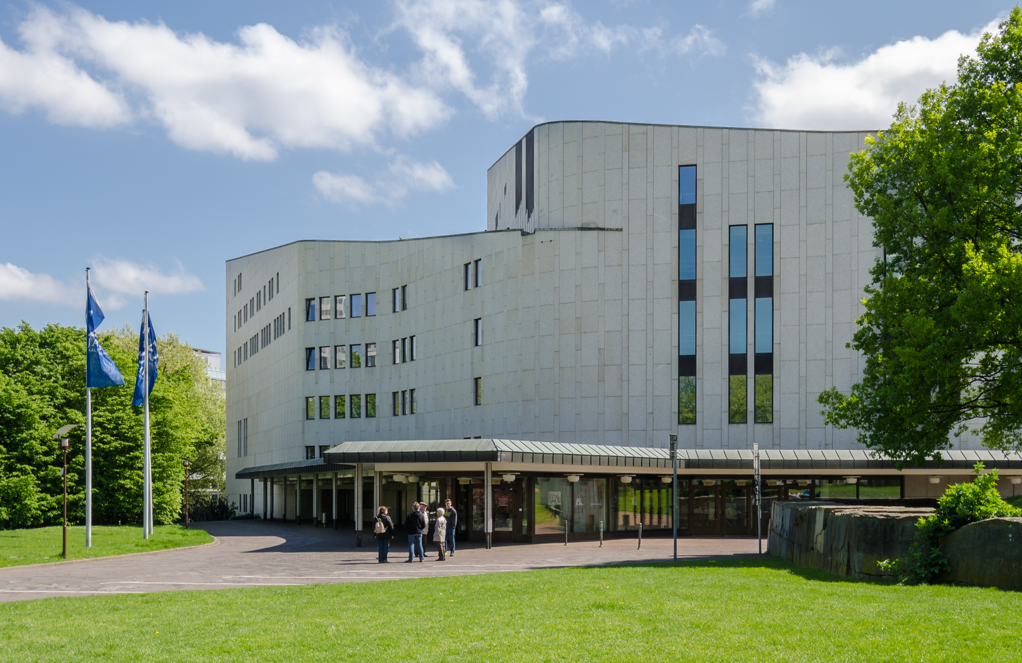 Aalto Theater in Essen